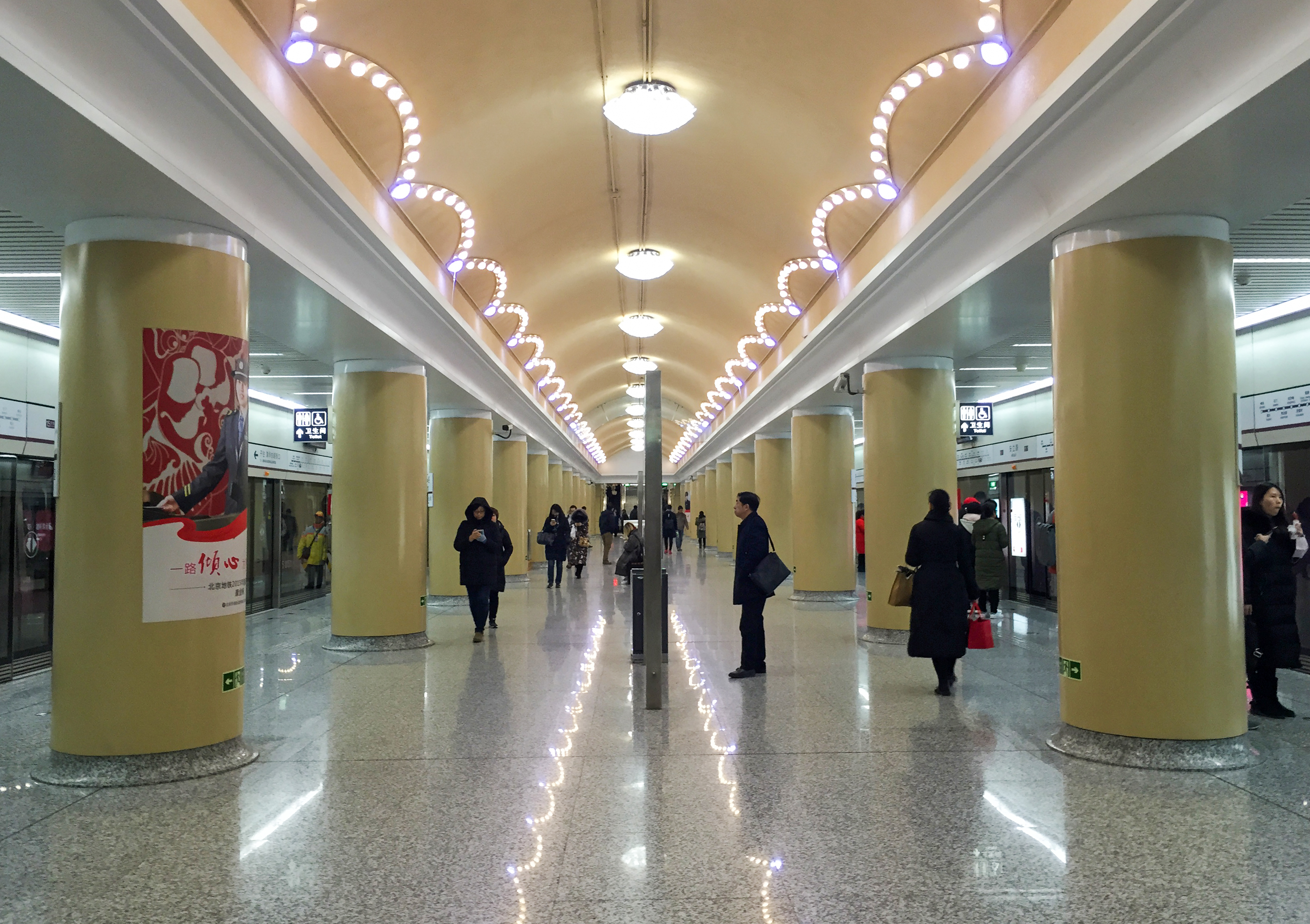 We're now at Anli Road, doors will open on the left.